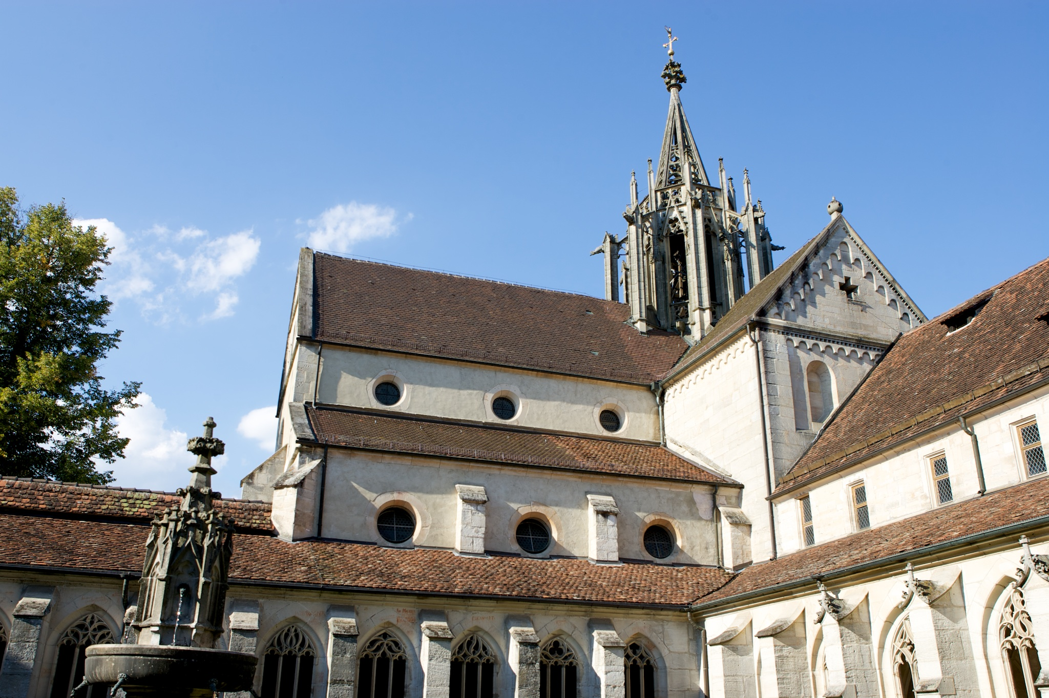 Cloister Bebenhausen inside garden with tower.